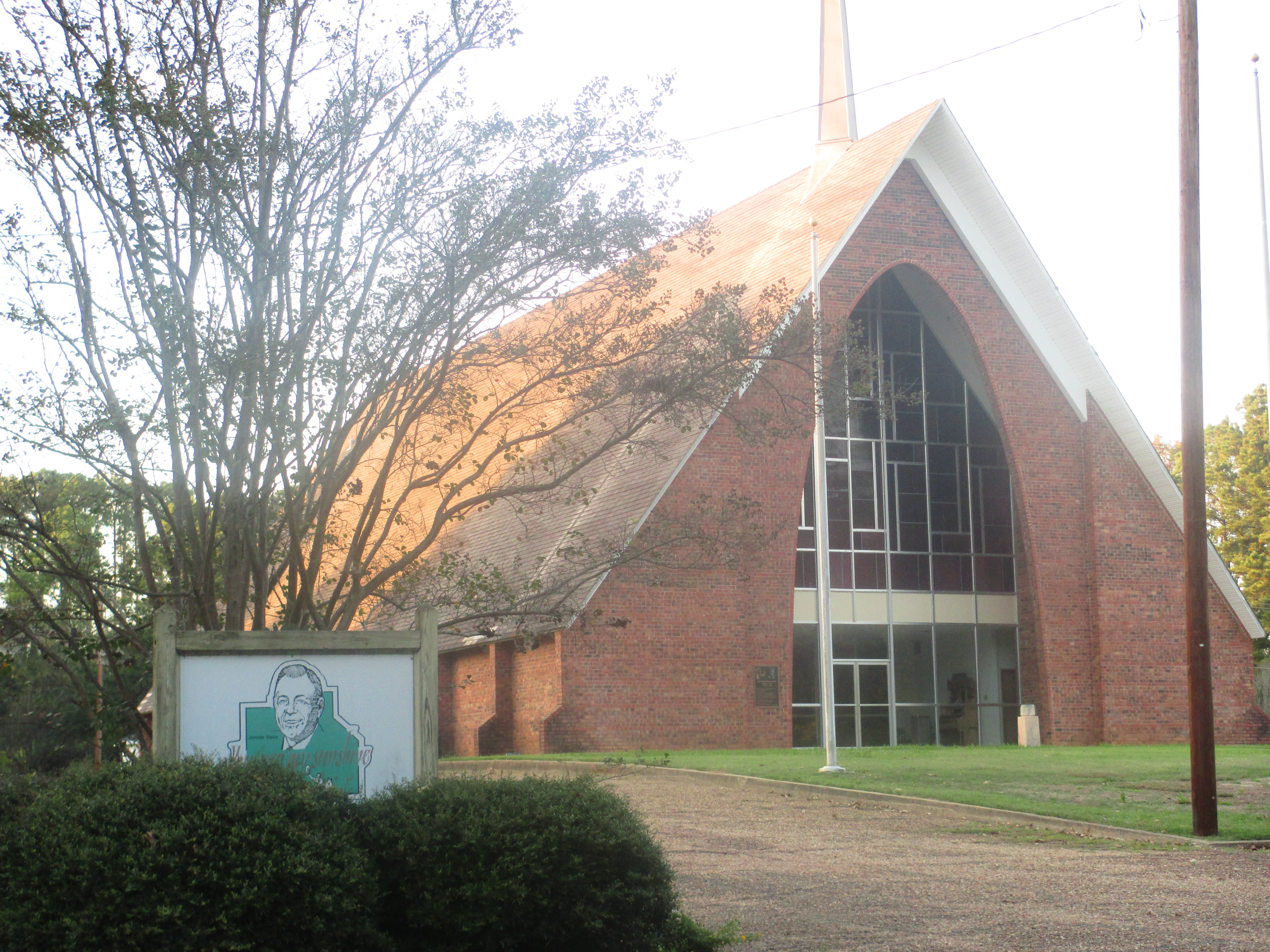 I took photo with Canon camera of Jimmie Davis Tabernacle in Jackson Parish, LA.